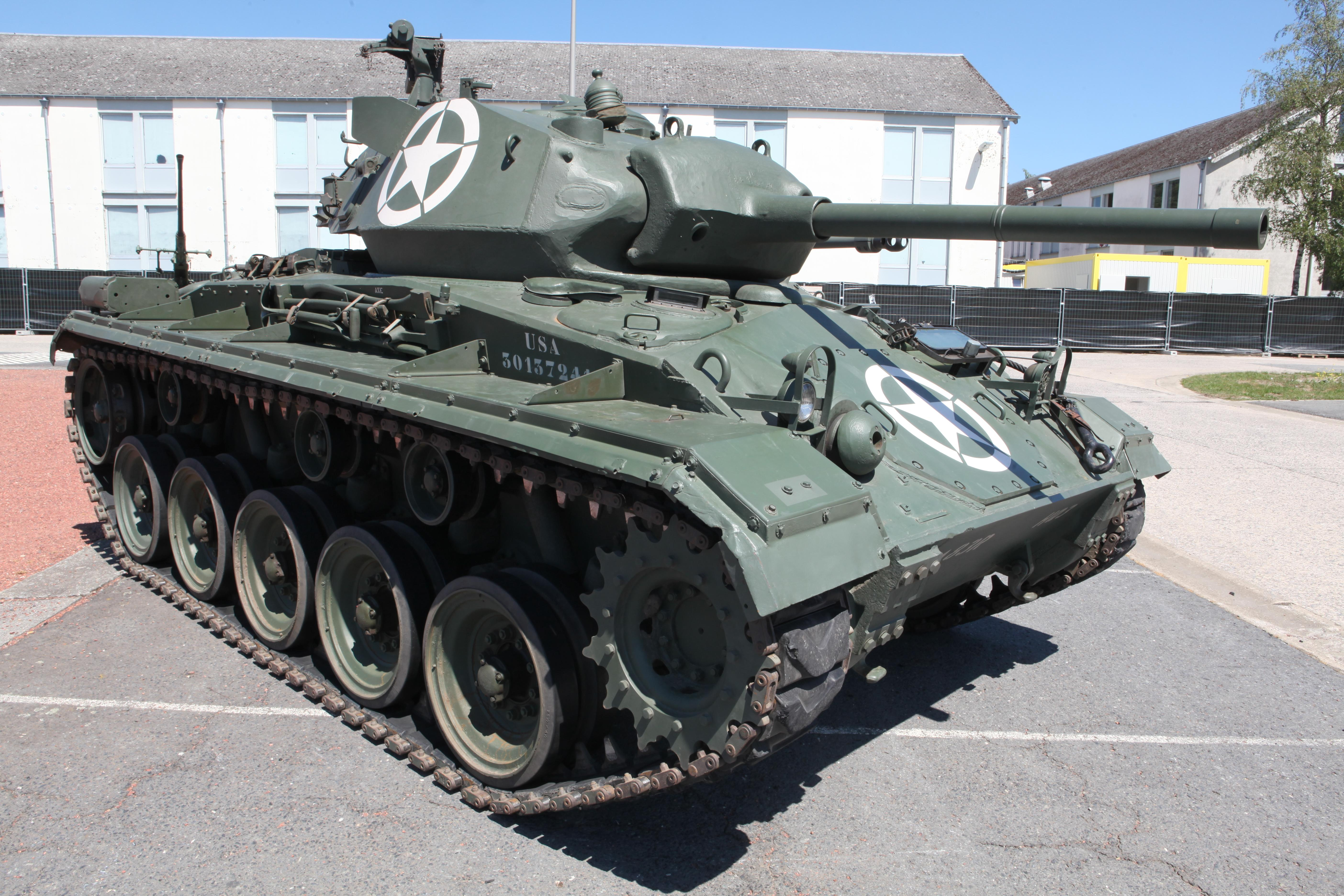 M 24 Chaffee Light Tank